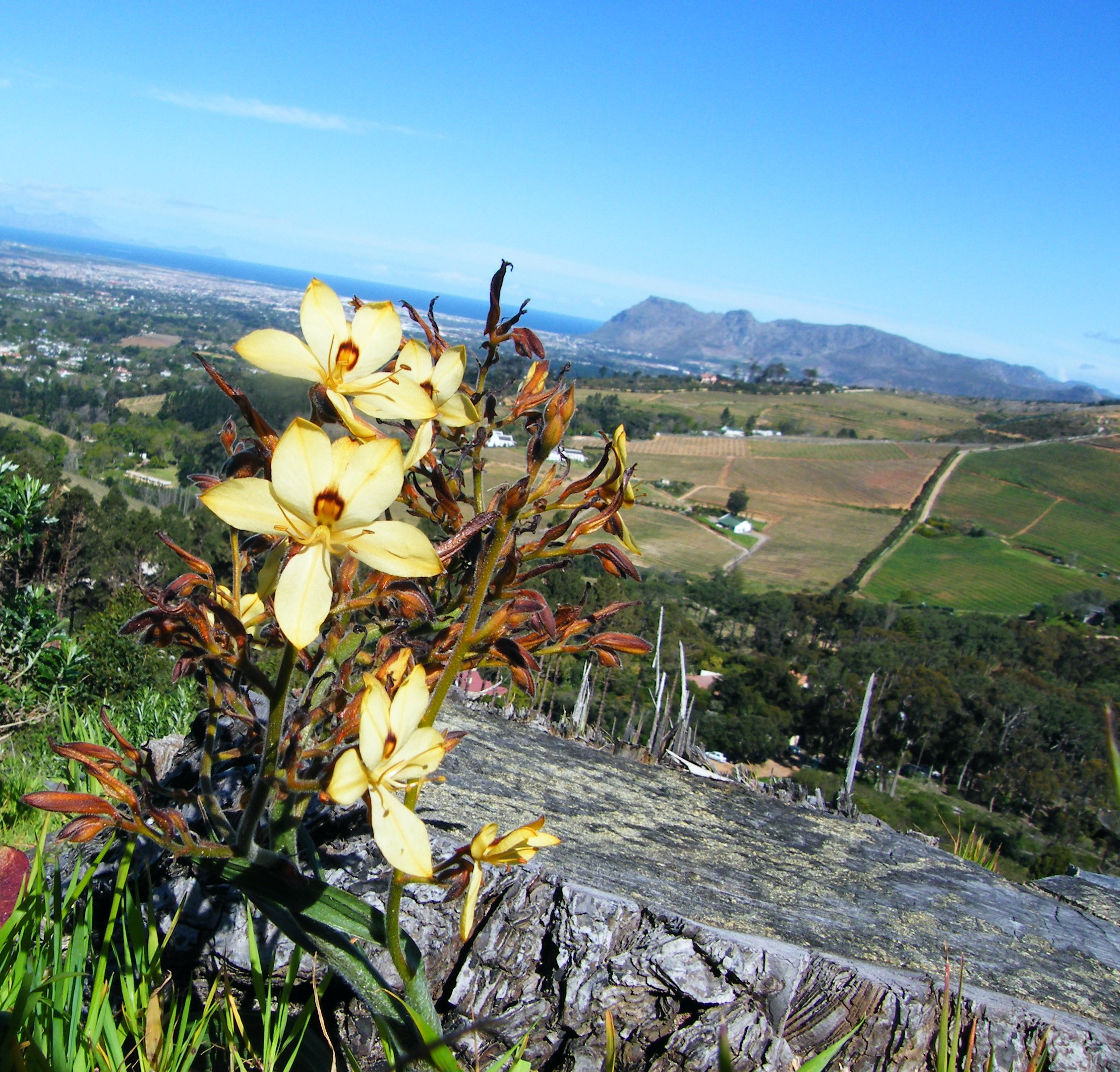 Wachendorfia paniculata - Bloodroot, in Fynbos habitat. View beyond of Table Mountain and Cape Town, South Africa.